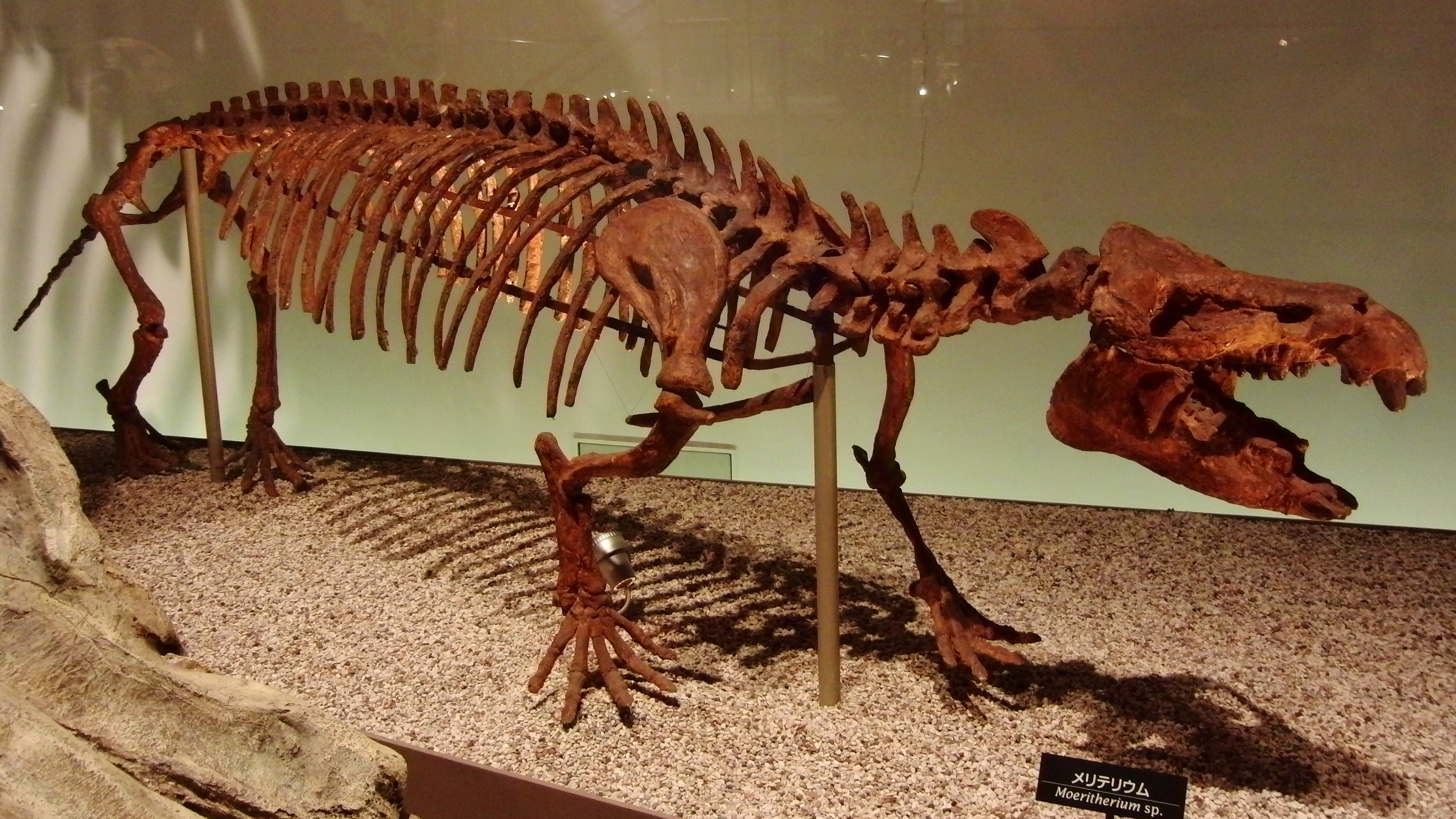 Skelton of Moeritherium (Moeritherium sp.). Exhibit in the National Museum of Nature and Science, Tokyo, Japan.